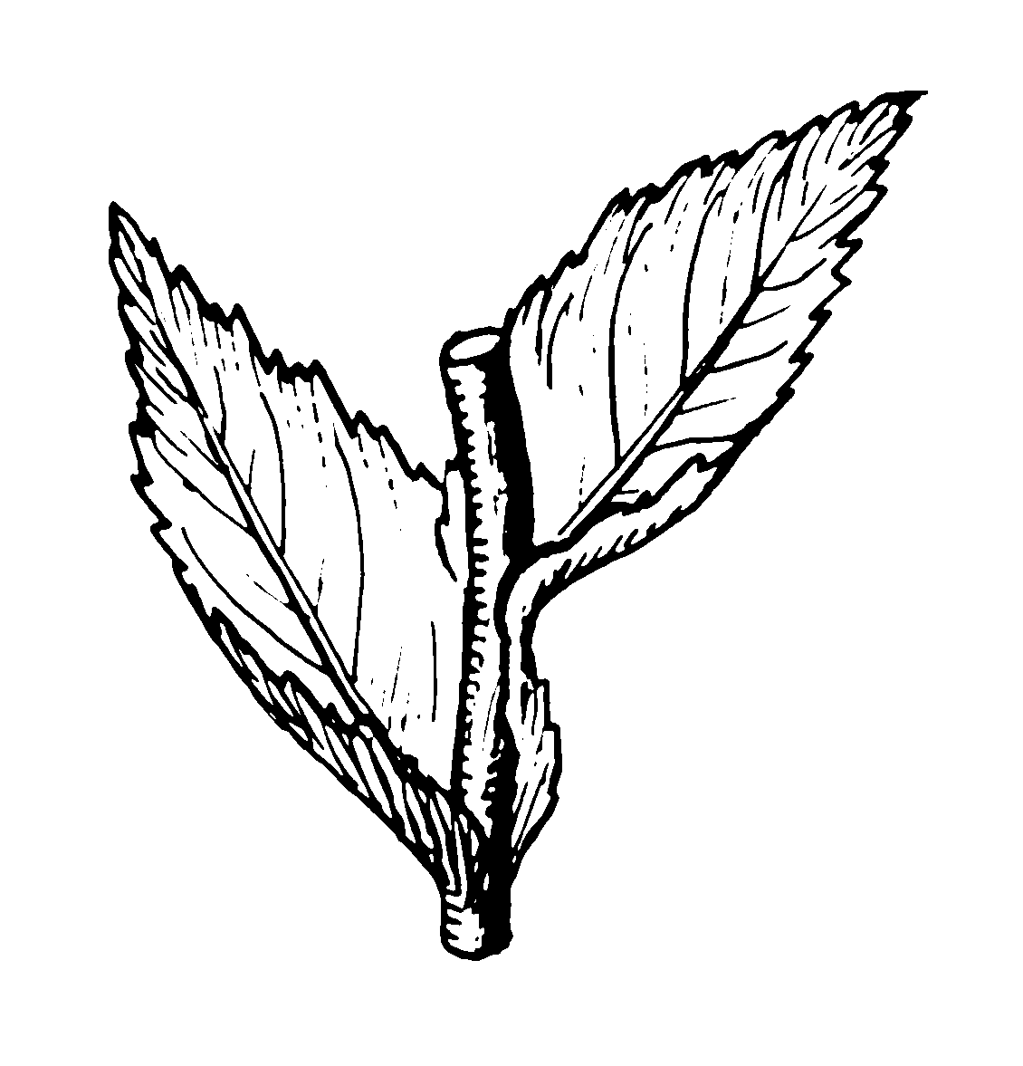 Line art drawing of amplexicaul leaves